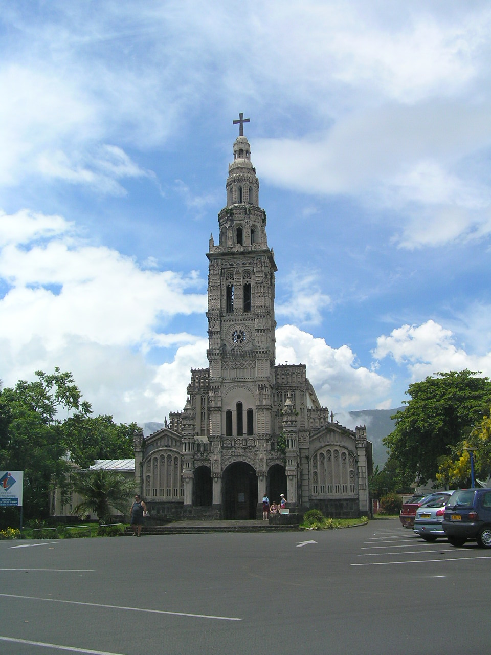 Church of Sainte-Anne, in the commune of Saint-Benoît, Réunion Island (Indian Ocean, a part of the French Republic).